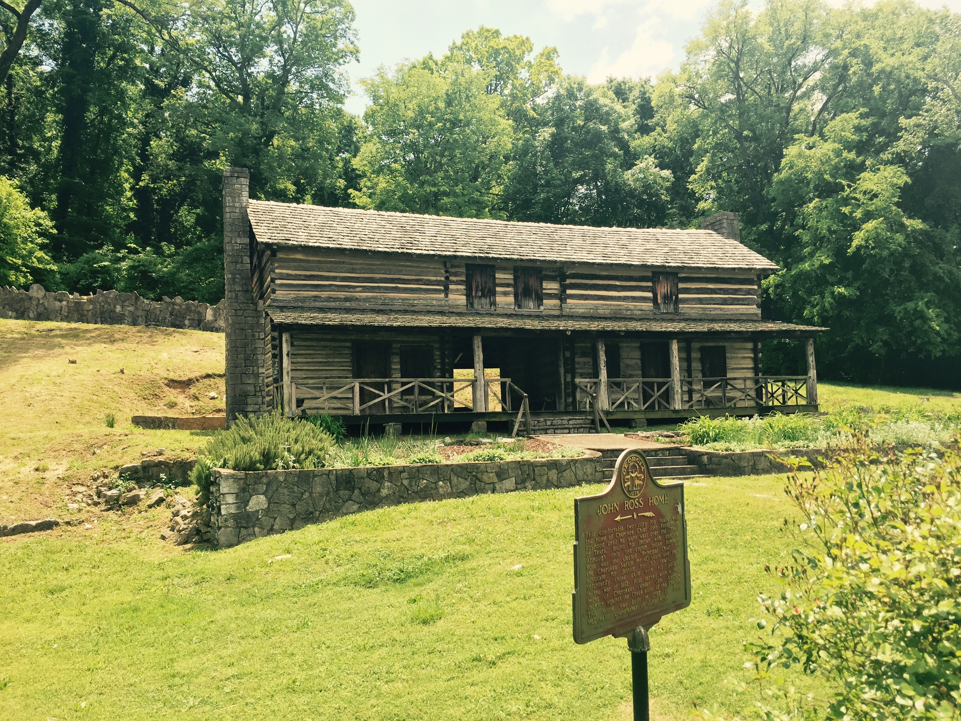 John Ross Home, Rossville, Georgia. John Ross was the Principal Chief of the Cherokee Nation from 1828–1866, serving longer in this position than any other person. Described as the Moses of his people, Ross influenced the Indian nation through such tumultuous events as the relocation to Indian Territory and the American Civil War.